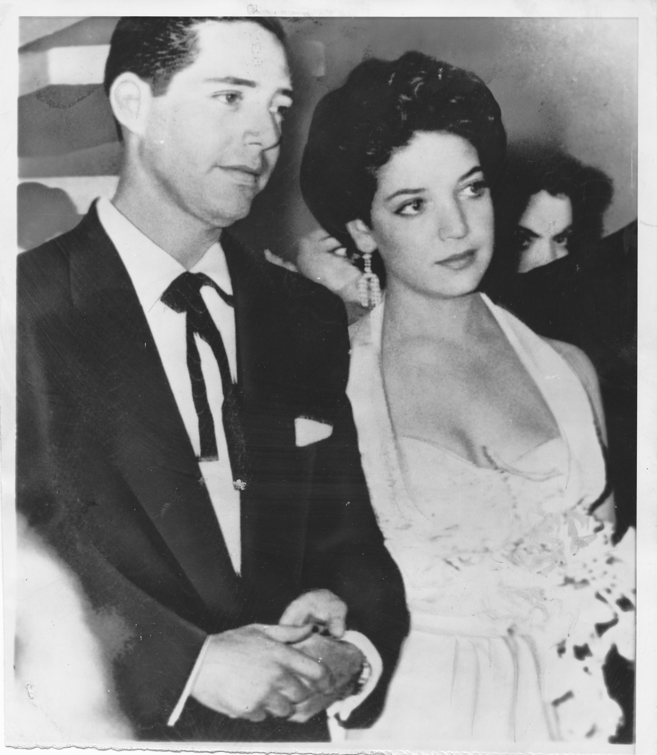 1954 Press Photo Andy Russell and Bride Velia Sanchez Belmont in Mexico